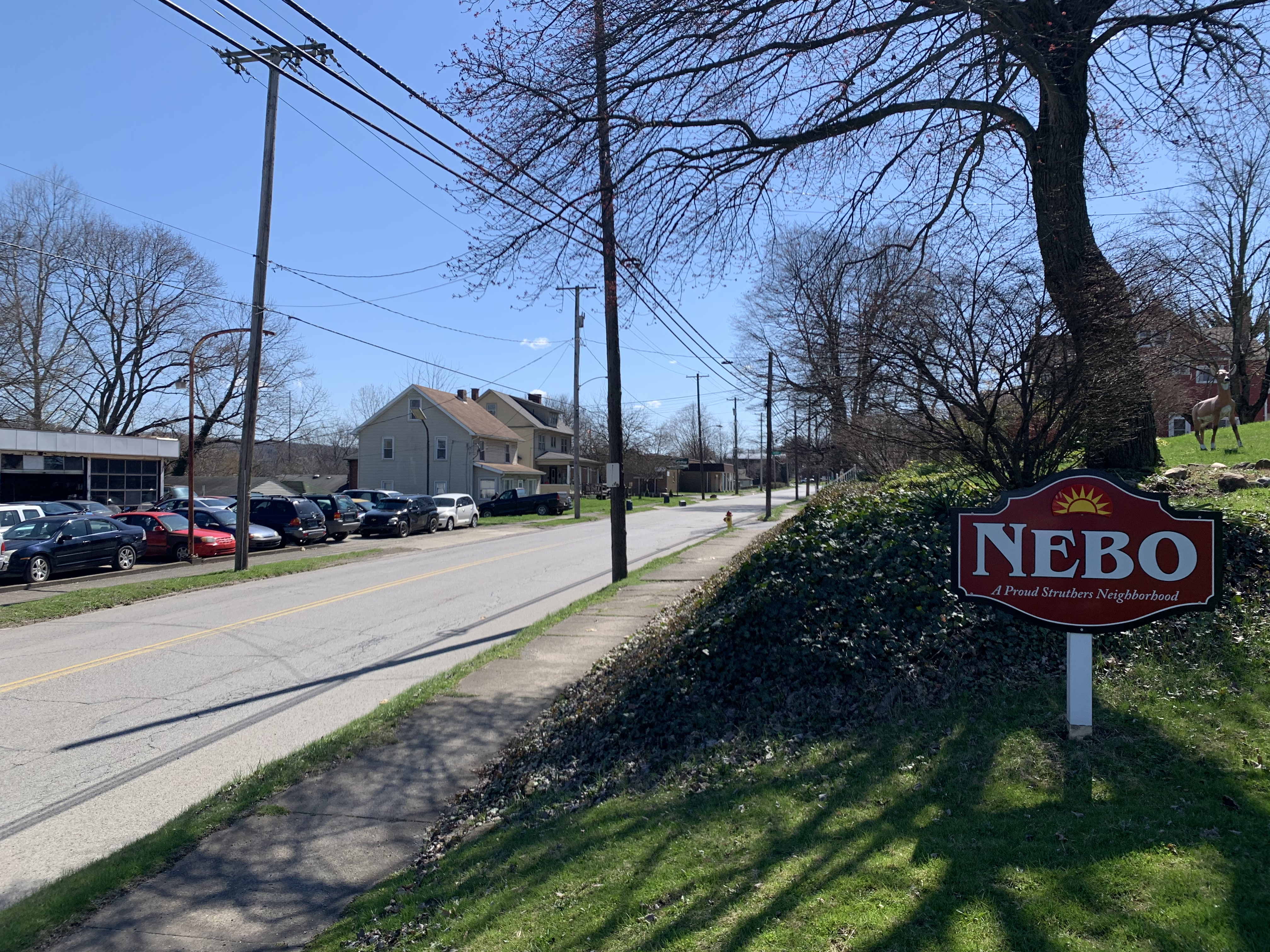 A view down Lowellville Road in the Neighborhood of Nebo, Struthers, Ohio, with a sign indicating its limit at the far right and the opposite slope of the Mahoning River valley in the background.